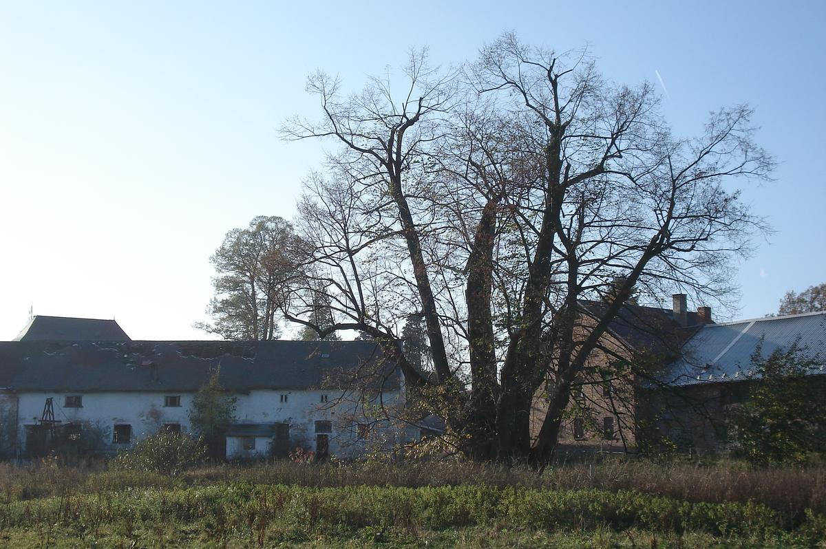 Malonices memorable tilia